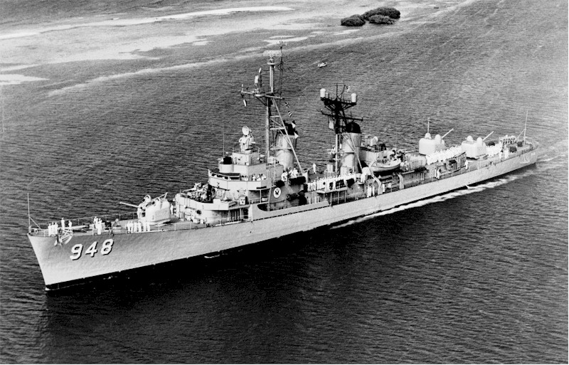 The U.S. Navy destroyer USS Morton (DD-948) underway in October 1959 as she was entering the channel to the city of Oranjestad, Aruba. The ship was en route from commissioning at Charleston, South Carolina (USA), to her home port of San Diego, California (USA).